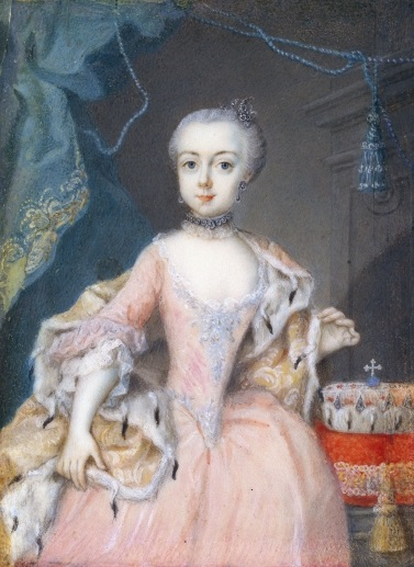 Portrait of Archduchess Maria Johanna Gabriela of Austria (1750-1762)